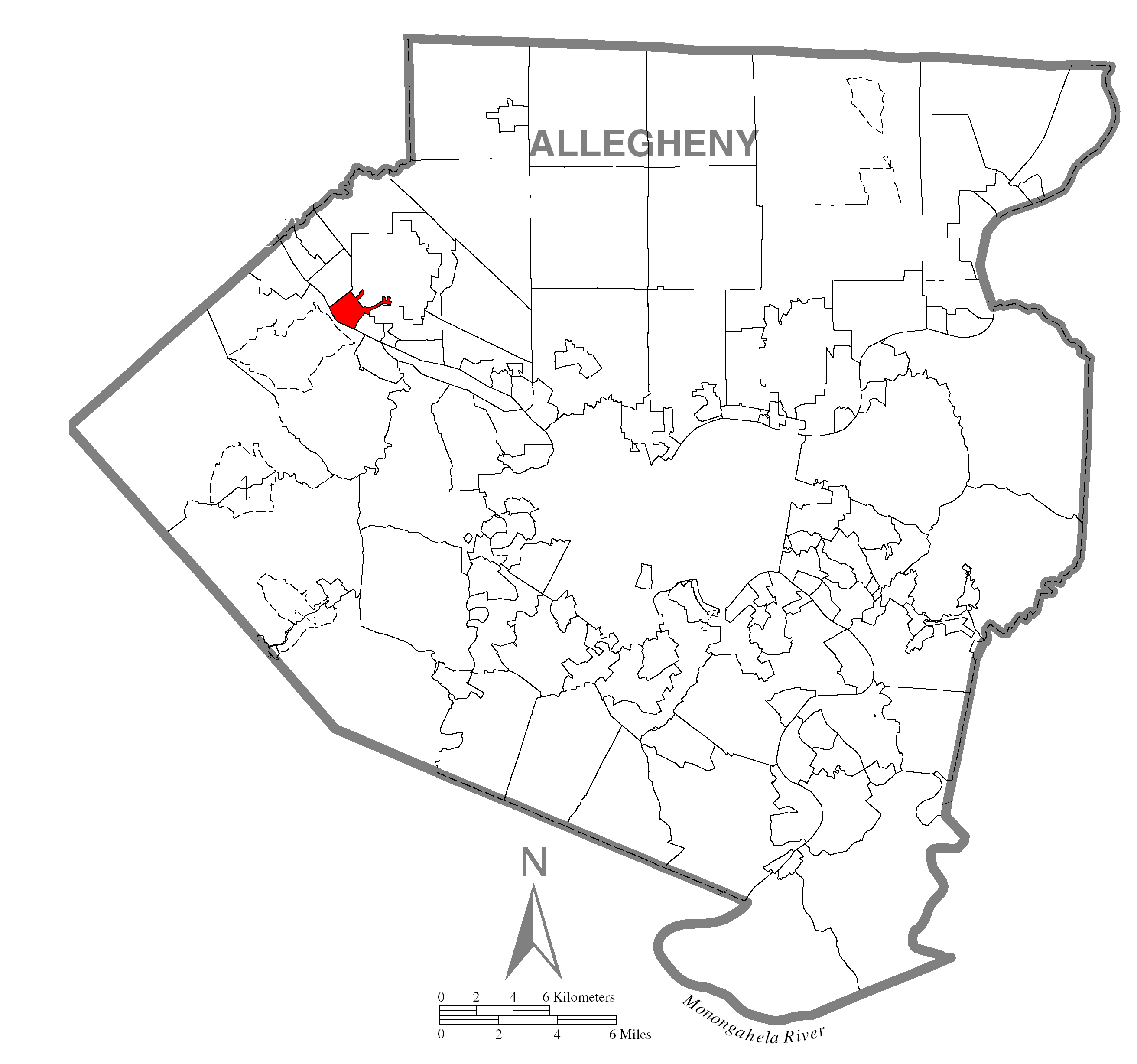 A map of Allegheny County showing Sewickley, Pennsylvania (alternate) highlighted on the map.